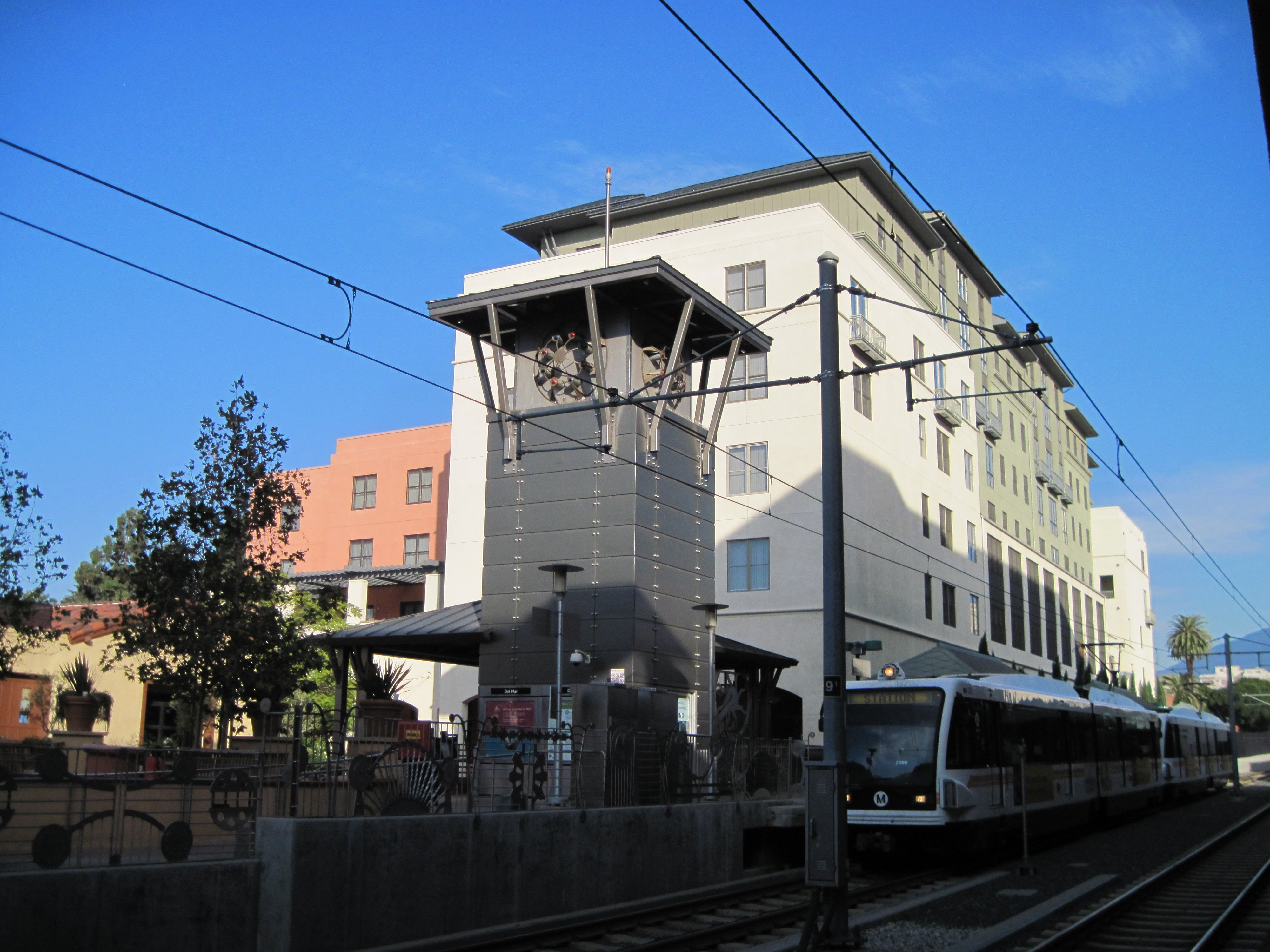 The Los Angeles County Metropolitan Transportation Authority's Del Mar station, serving the Metro Gold Line in Pasadena, California, USA.